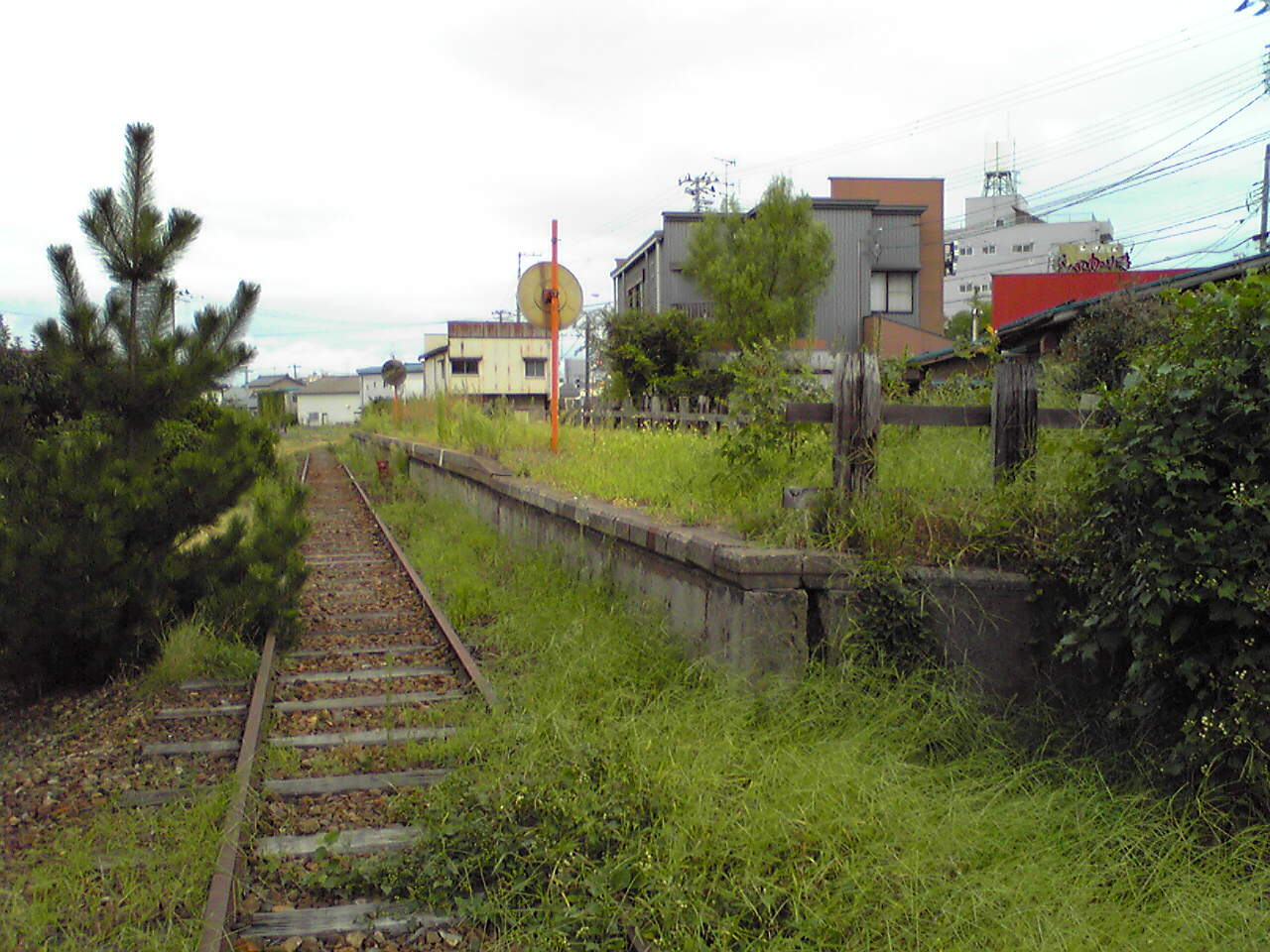 Remains of Niigata Kotsu Railway Heijima Station, which was abolished on 5 April 1999. Facing northward.